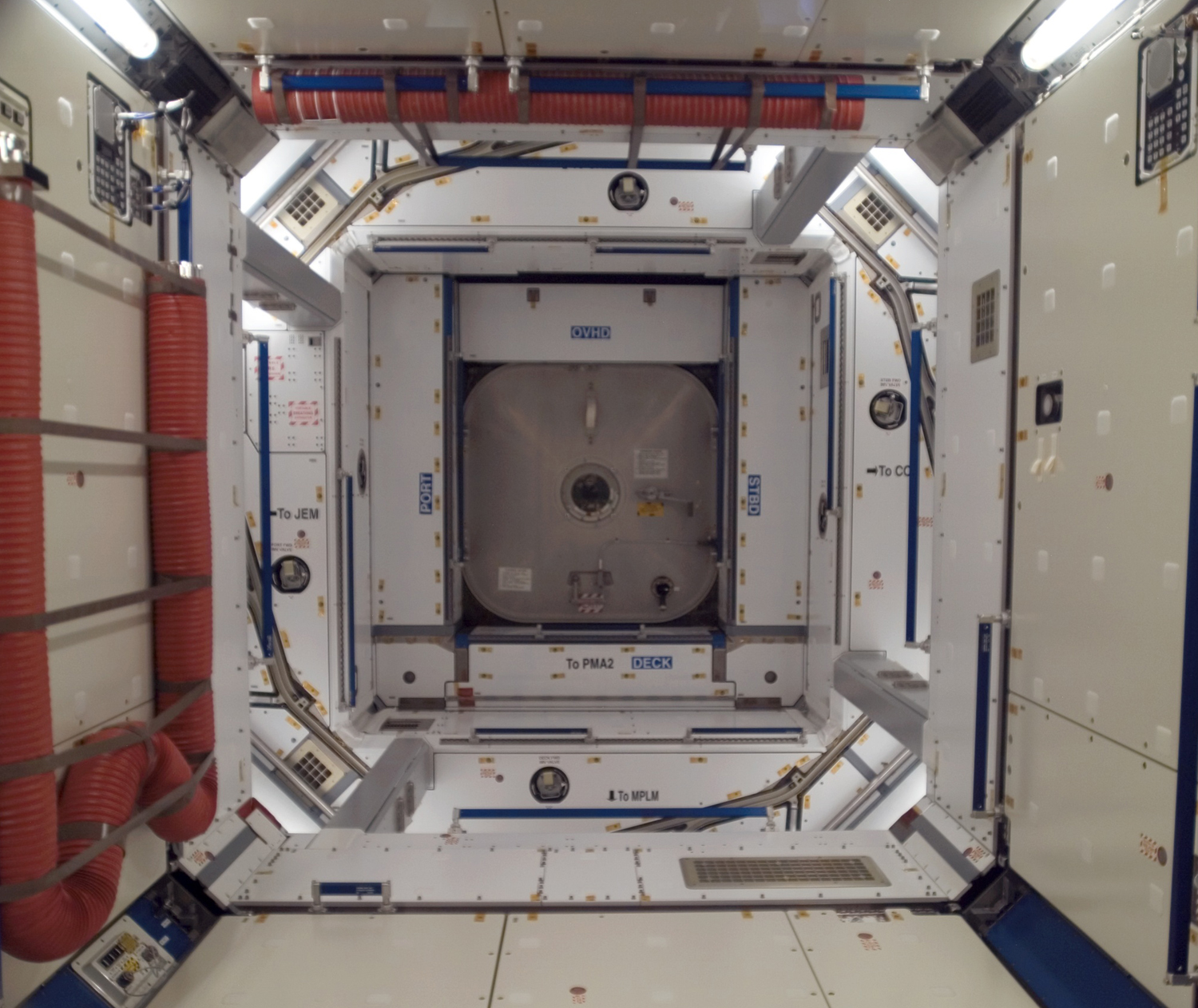 The interior of the Harmony node was photographed after it was attached to its temporary location on the International Space Station during STS-120 flight day five activities.